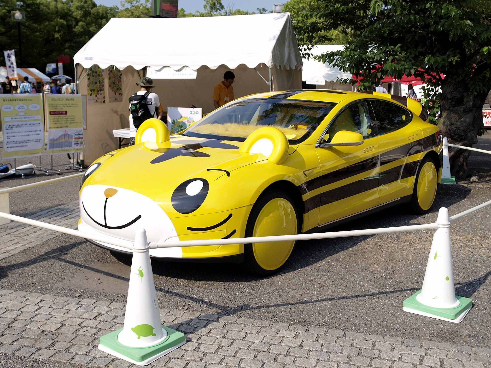 Tesla Model S, decorated like tiger boy Shimajiro by Benesse Corporation. Displayed at Eco Life fair 2018